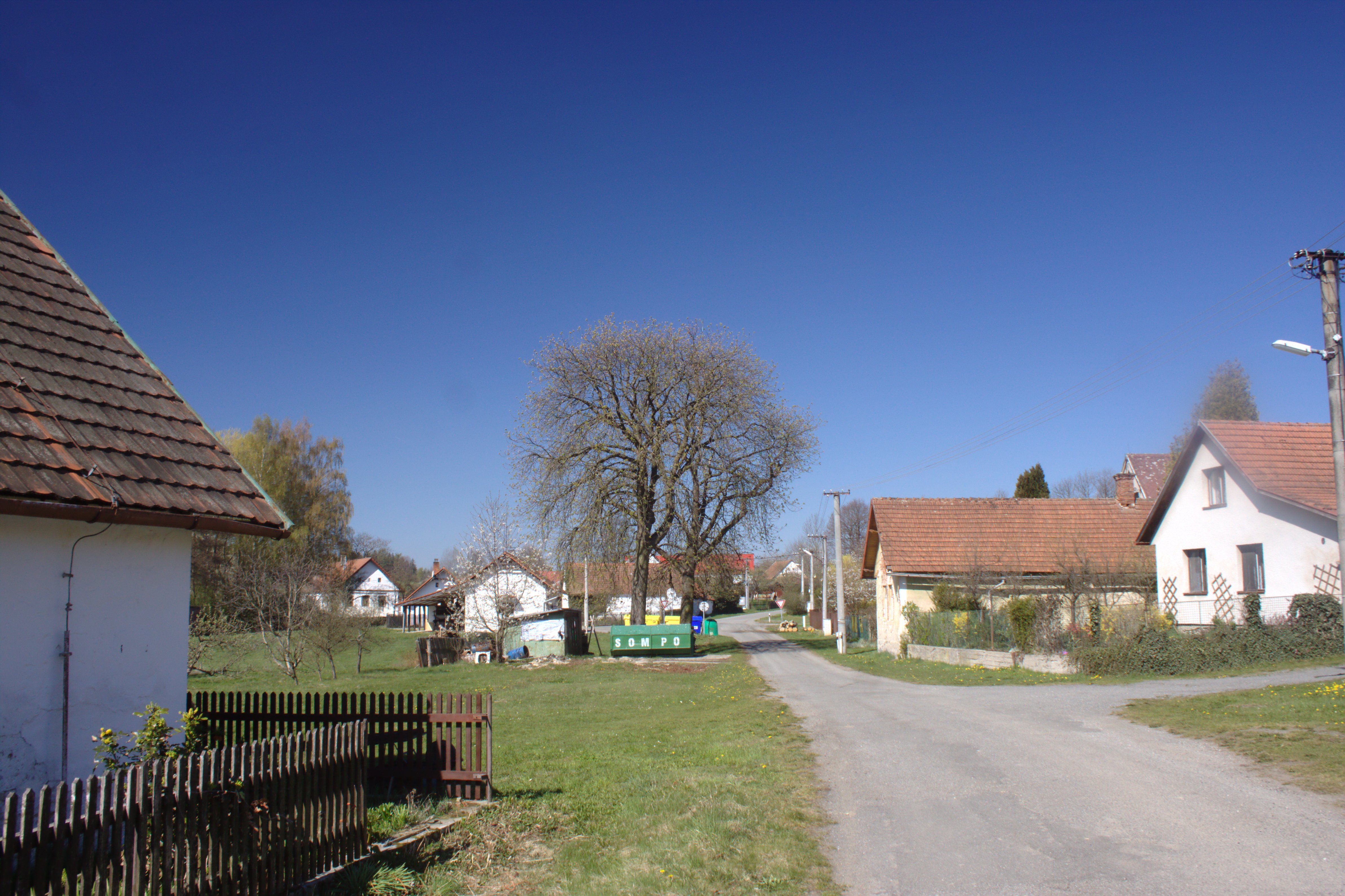 This photograph was created as a part of Wikiexpedition Mladá Vožice, a project supported by Wikimedia Foundation grant.